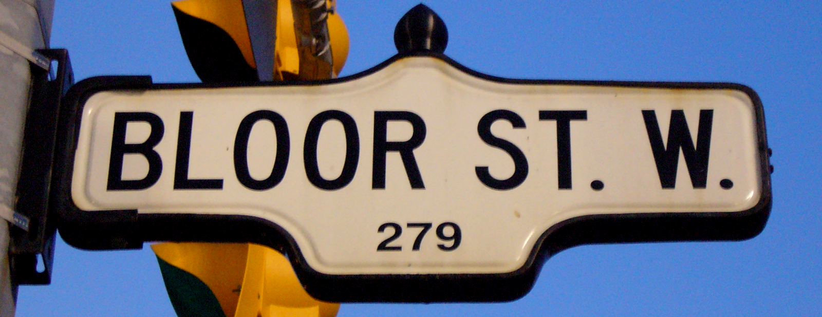 Street Sign for Bloor Street West, near St George Station